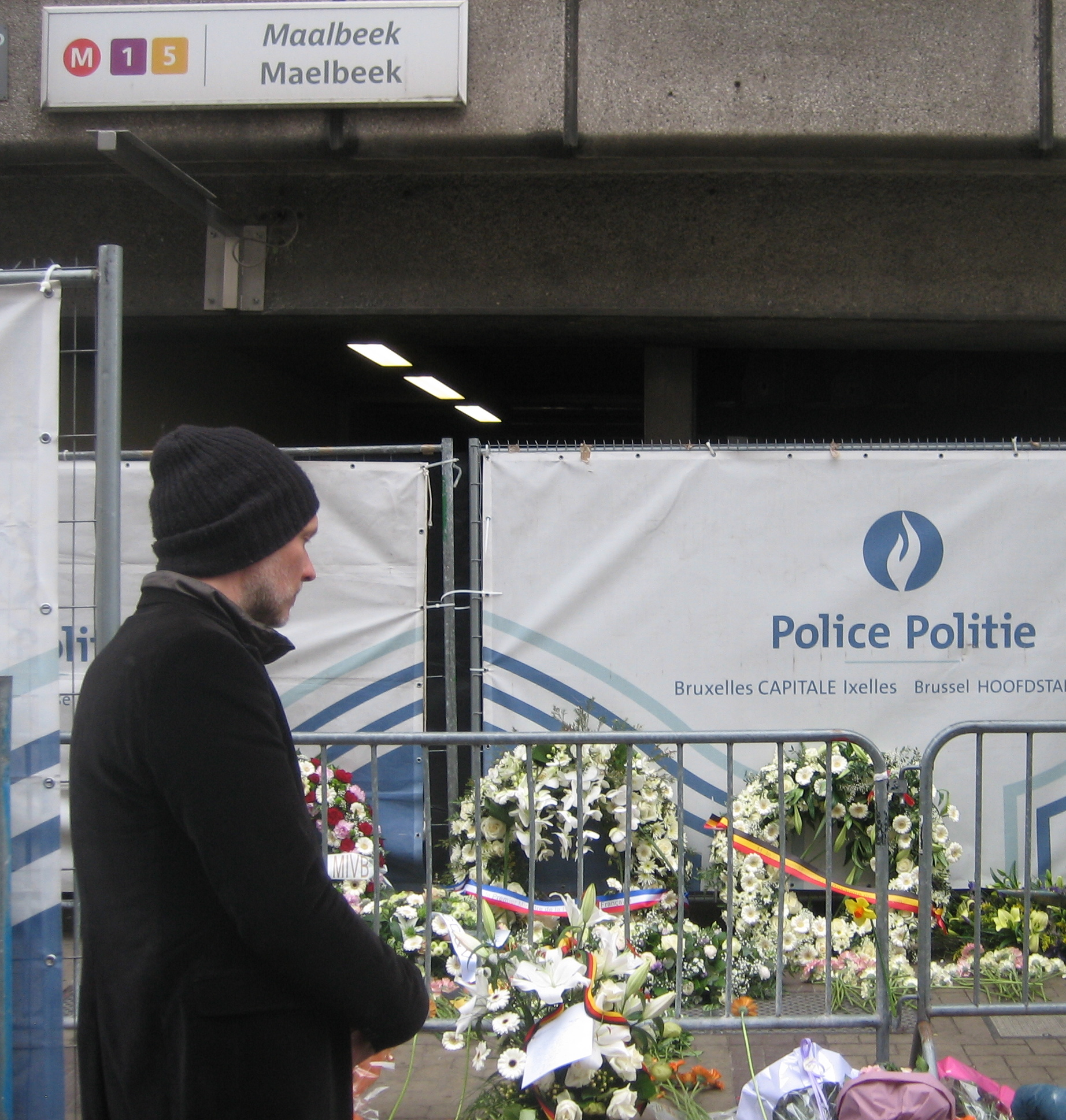 Entrance of Maelbeek/Maalbeek metro station at Rue de la Loi/Wetstraat: Flowers and inscriptions after March 2016 Brussels attacks